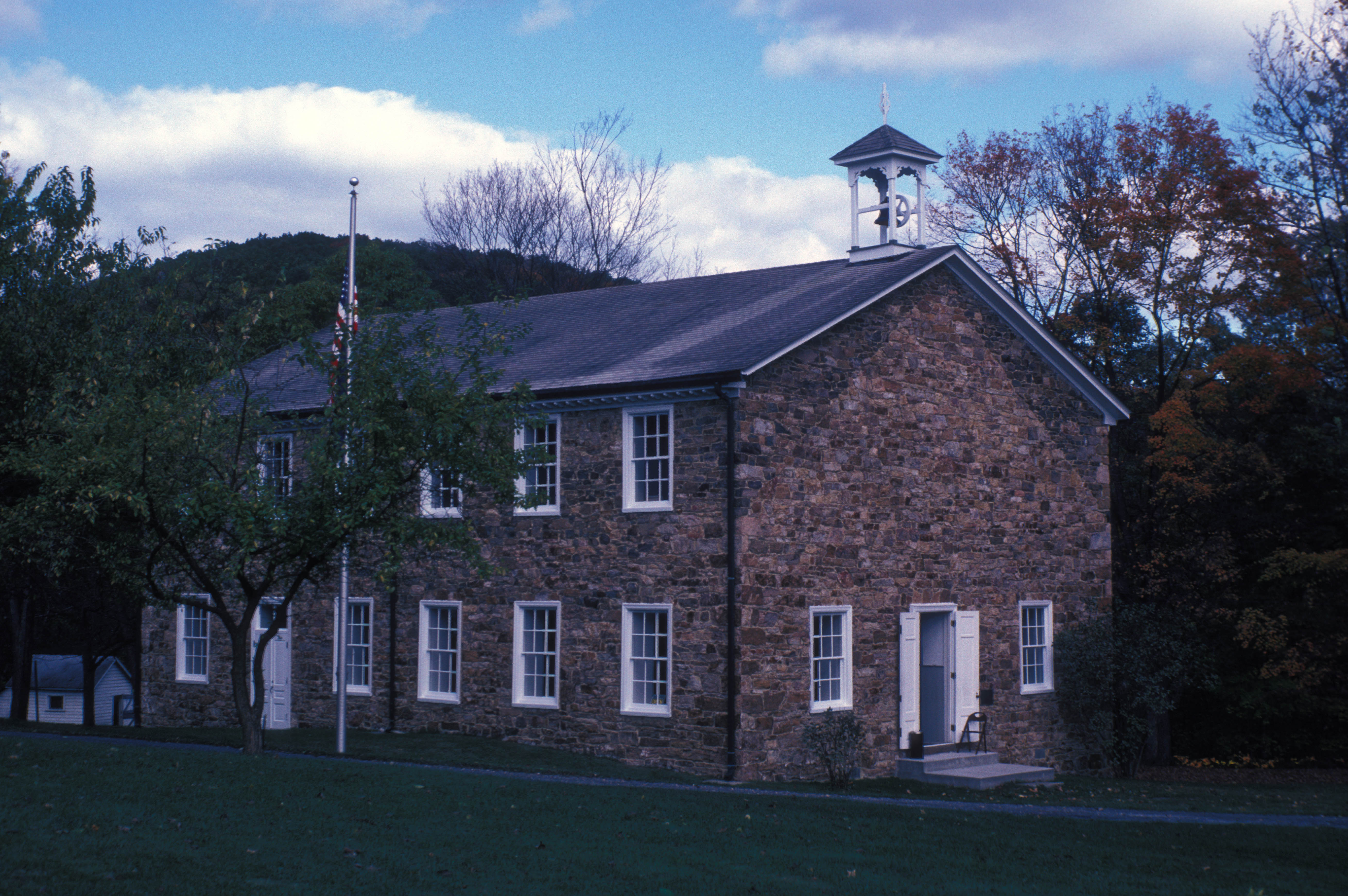 A rural boarding school designed to provide secondary education to students who might desire to go further in pursuits of accounting, surveying, business, and other vocations except religion. Originally a church, the building was enlarged with dormitories on the upper story and once housed 150 students.